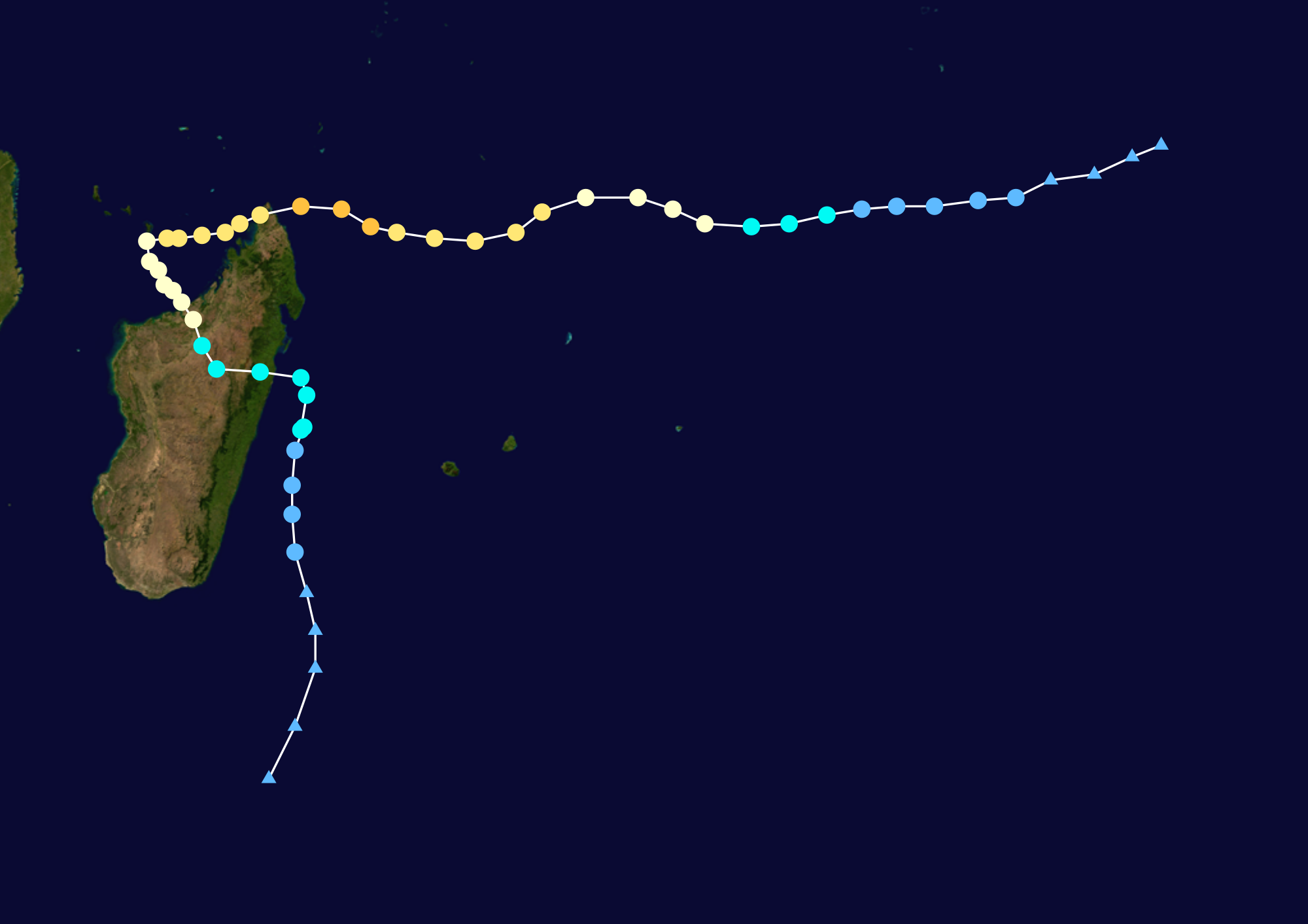 Track map of Intense Tropical Cyclone Kamisy of the 1983-1984 South-West Indian Ocean cyclone season. The points show the location of the storm at 6-hour intervals. The colour represents the storm's maximum sustained wind speeds as classified in the Saffir-Simpson Hurricane Scale (see below), and the shape of the data points represent the nature of the storm, according to the legend below. Saffir–Simpson hurricane wind scale Tropical depression≤38 mph≤62 km/h Category 3111–129 mph178–208 km/h Tropical storm39–73 mph63–118 km/h Category 4130–156 mph209–251 km/h Category 174–95 mph119–153 km/h Category 5≥157 mph≥252 km/h Category 296–110 mph154–177 km/h Unknown Storm typeTropical cycloneSubtropical cycloneExtratropical cyclone / Remnant low / Tropical disturbance